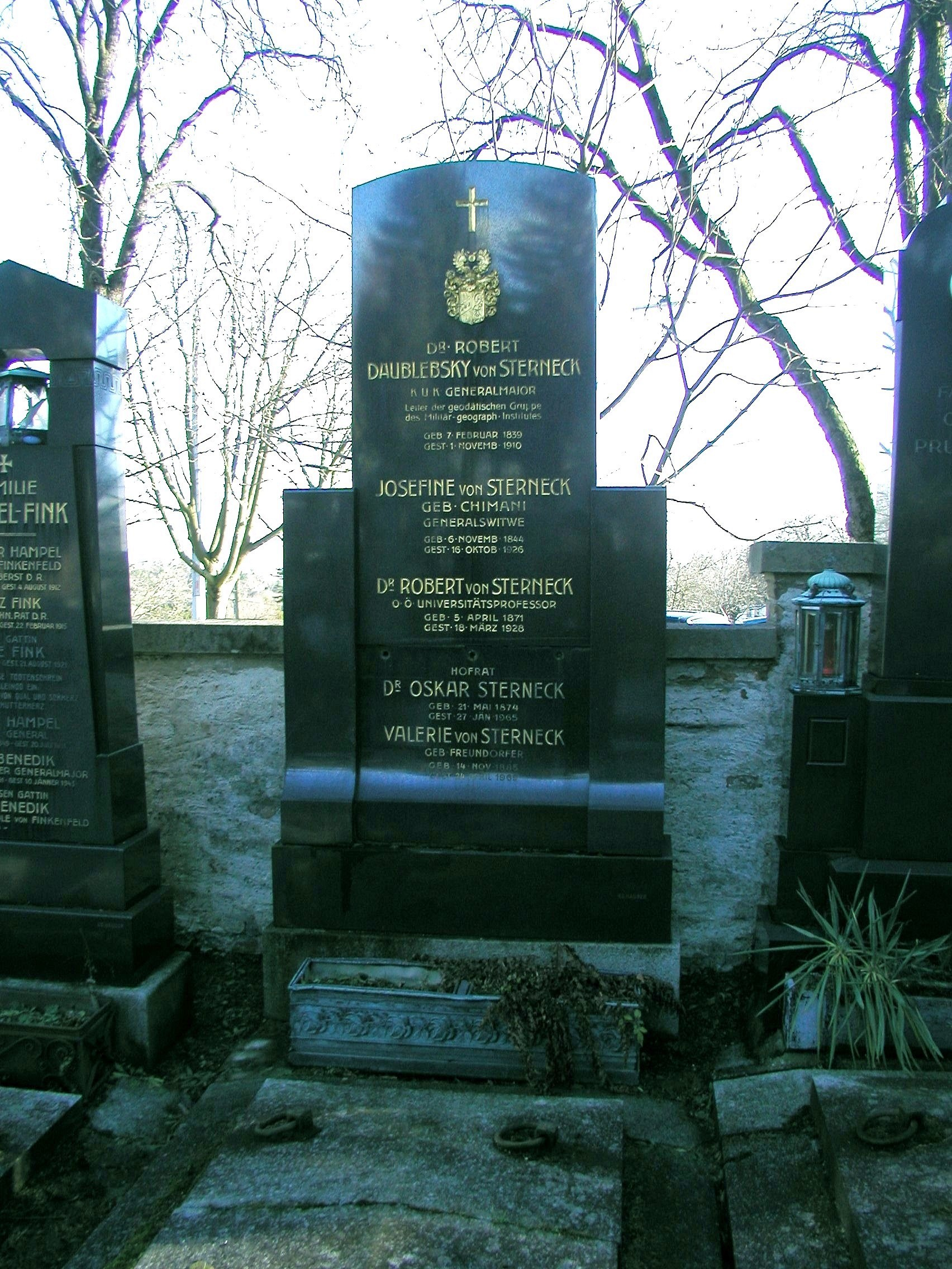 The tomb of major-general Robert Daublebsky von Sterneck (1839-1910) at the cemetery village Neustift am Walde, now in the composition 19 district of Vienna – Döbling